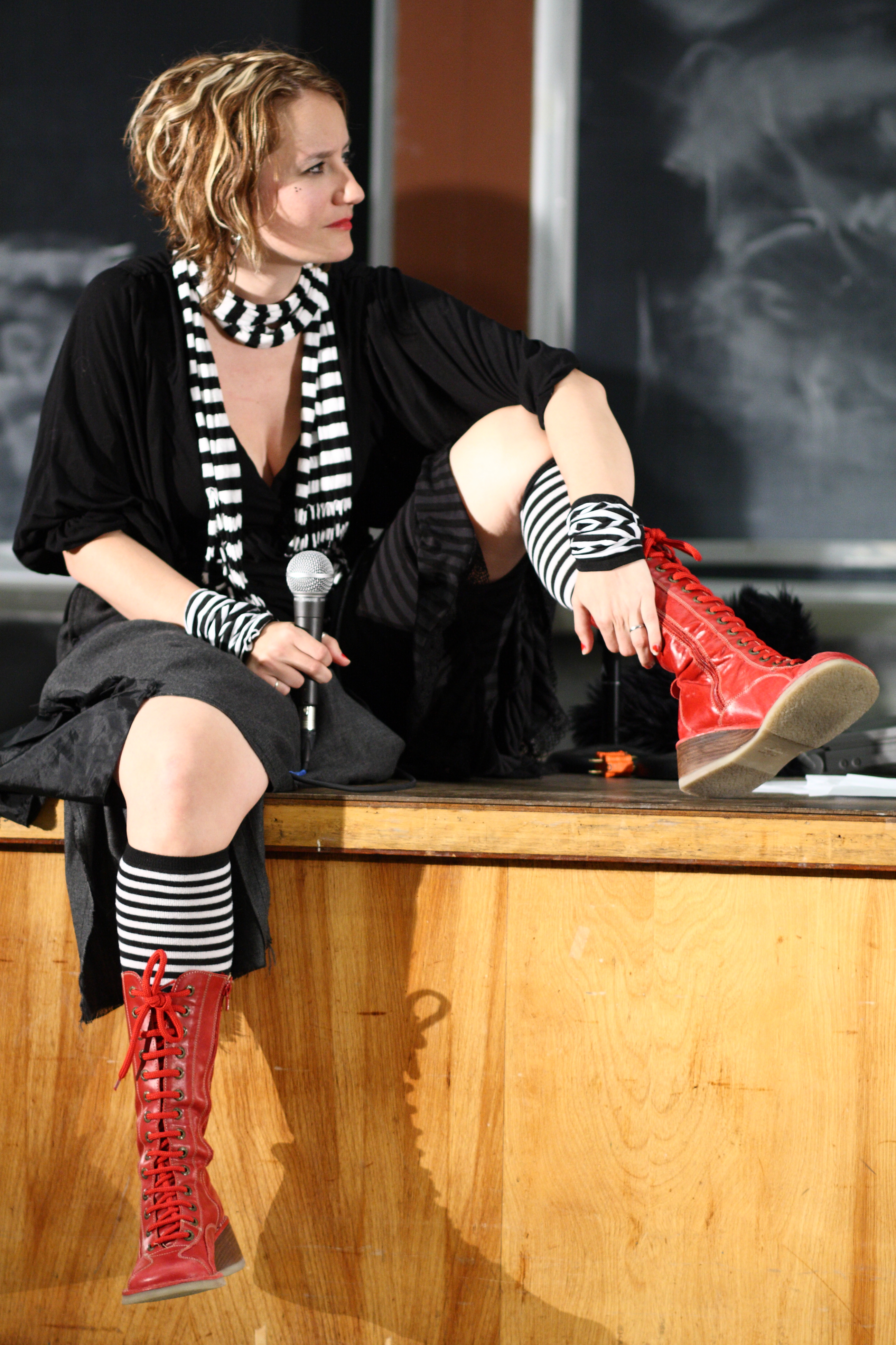 danah boyd during the opening keynote of ROFLCon II